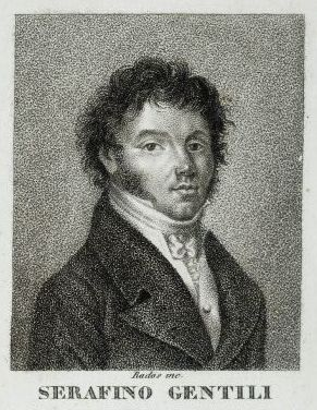 Portrait of the Italian tenor Serafino Gentili (1775-1835). It was part of a series of portraits of opera singers published by Ricordi between 1809 and 1816.